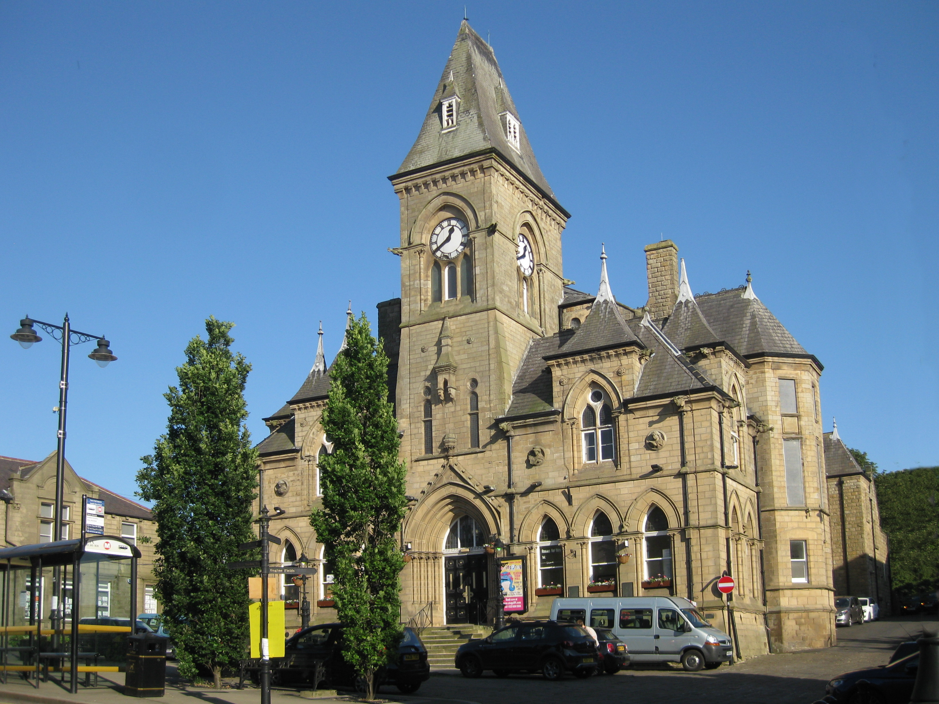 Yeadon Town Hall, viewed from the High Street. Front, North face and part of West face.